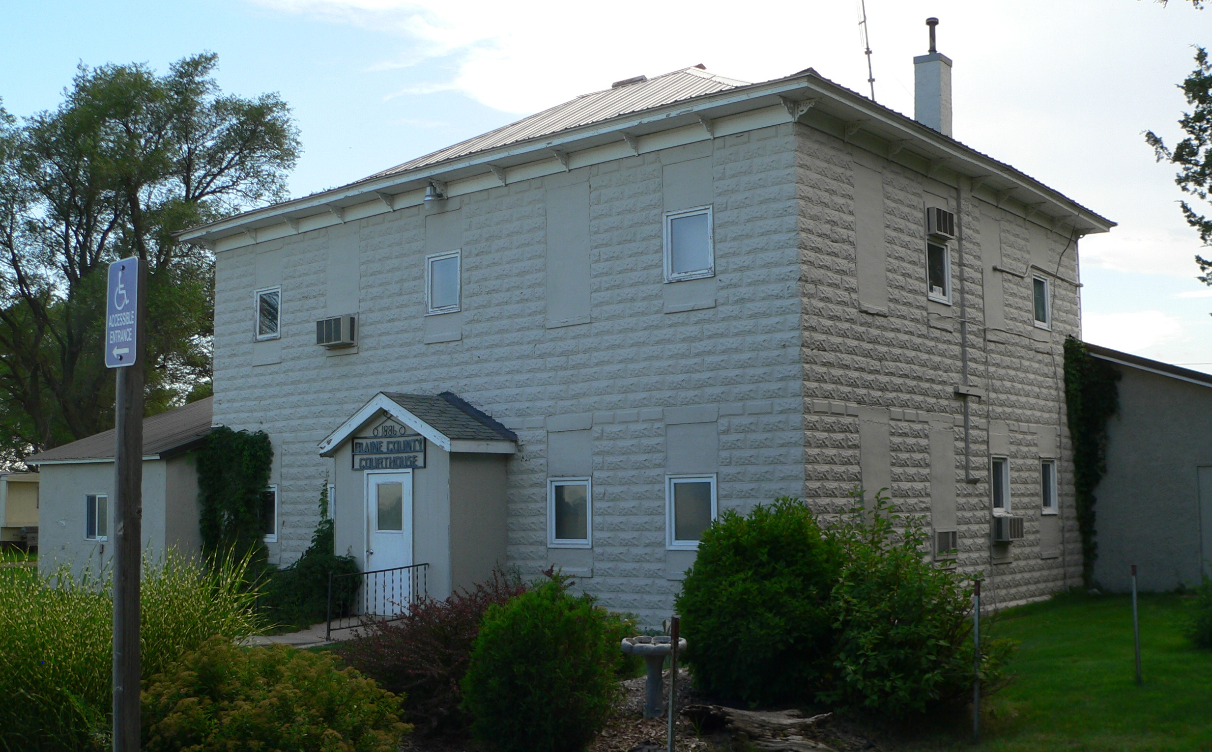 Blaine County courthouse in Brewster, Nebraska; seen from the northeast.